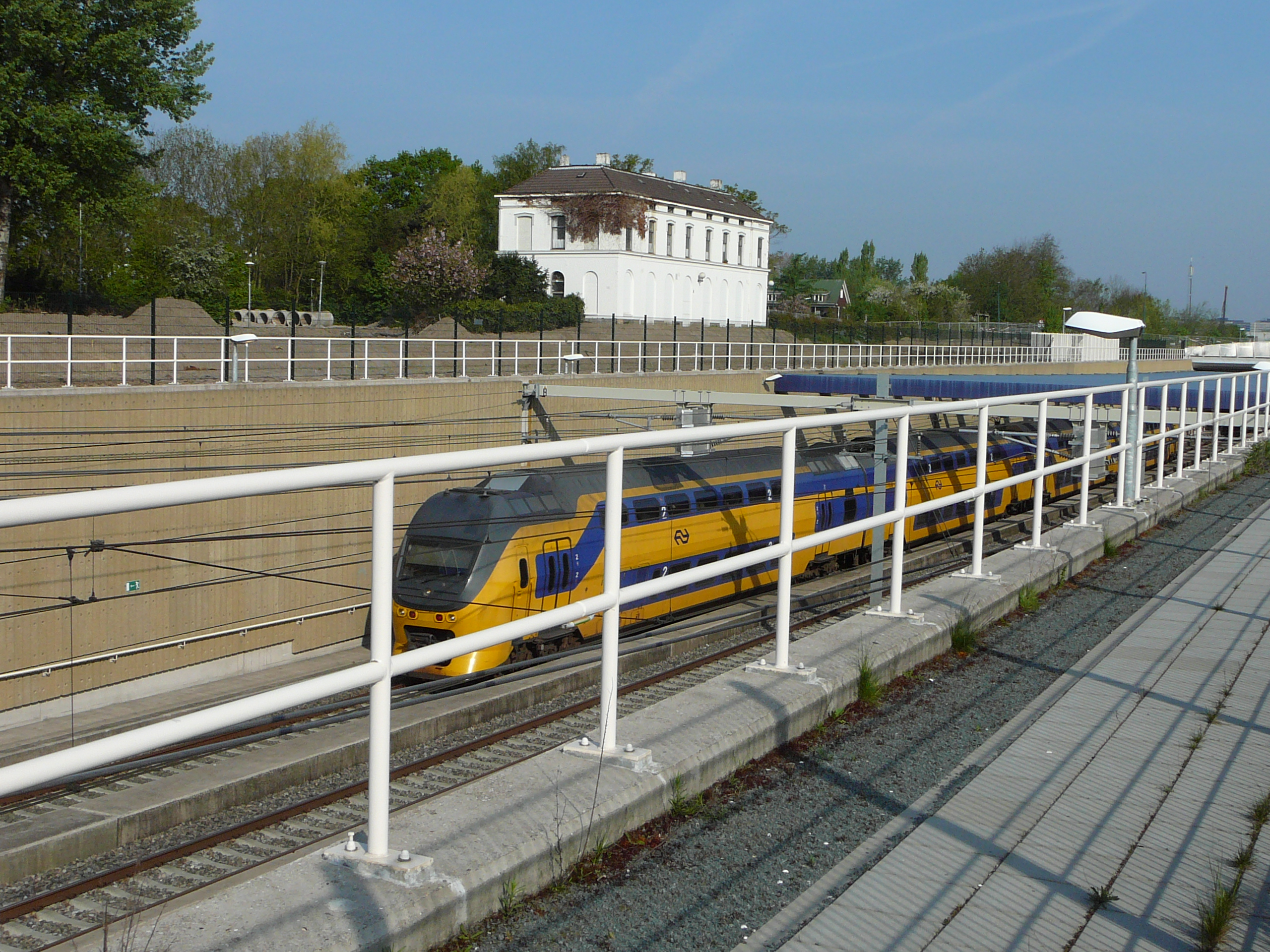 Dutch EMU of the DD-IRM type, also known as VIRM (the extended version) passing the former Abcoude station, between Amsterdam and Utrecht. The new station is a bit to the south of this building. (description added by MartinD)